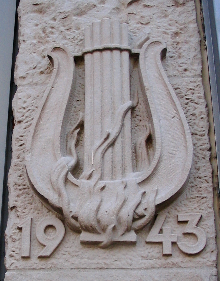 t